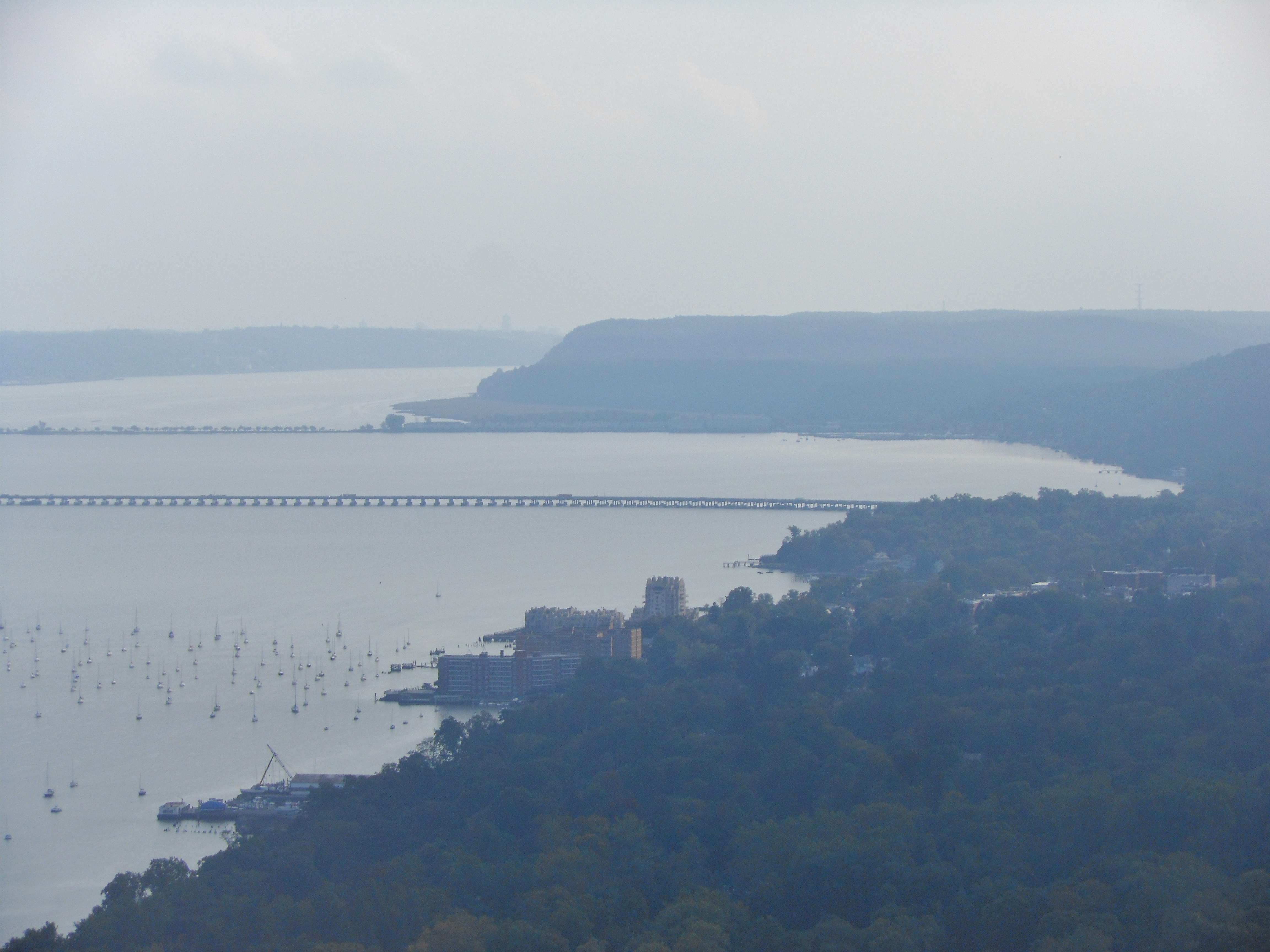 Overlooking Nyack, NY from top of Hook Mountain. Hudson River and Tappan Zee Bridge in the background.